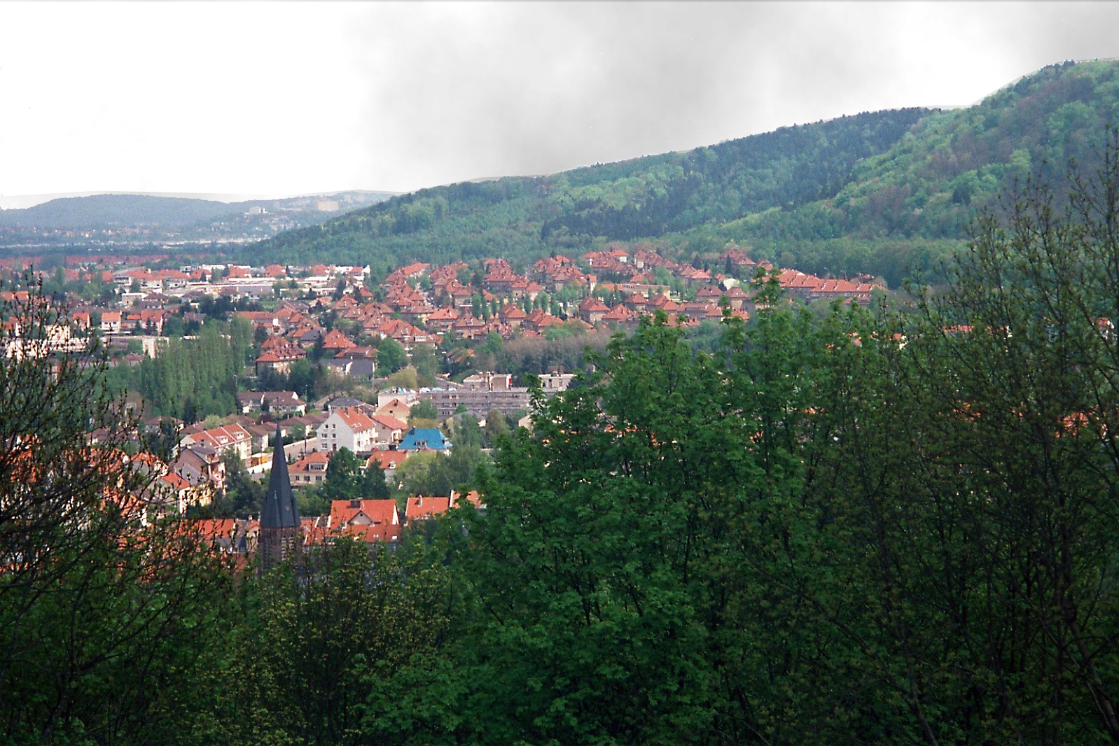 Forbach, view from the castle mountain to the city